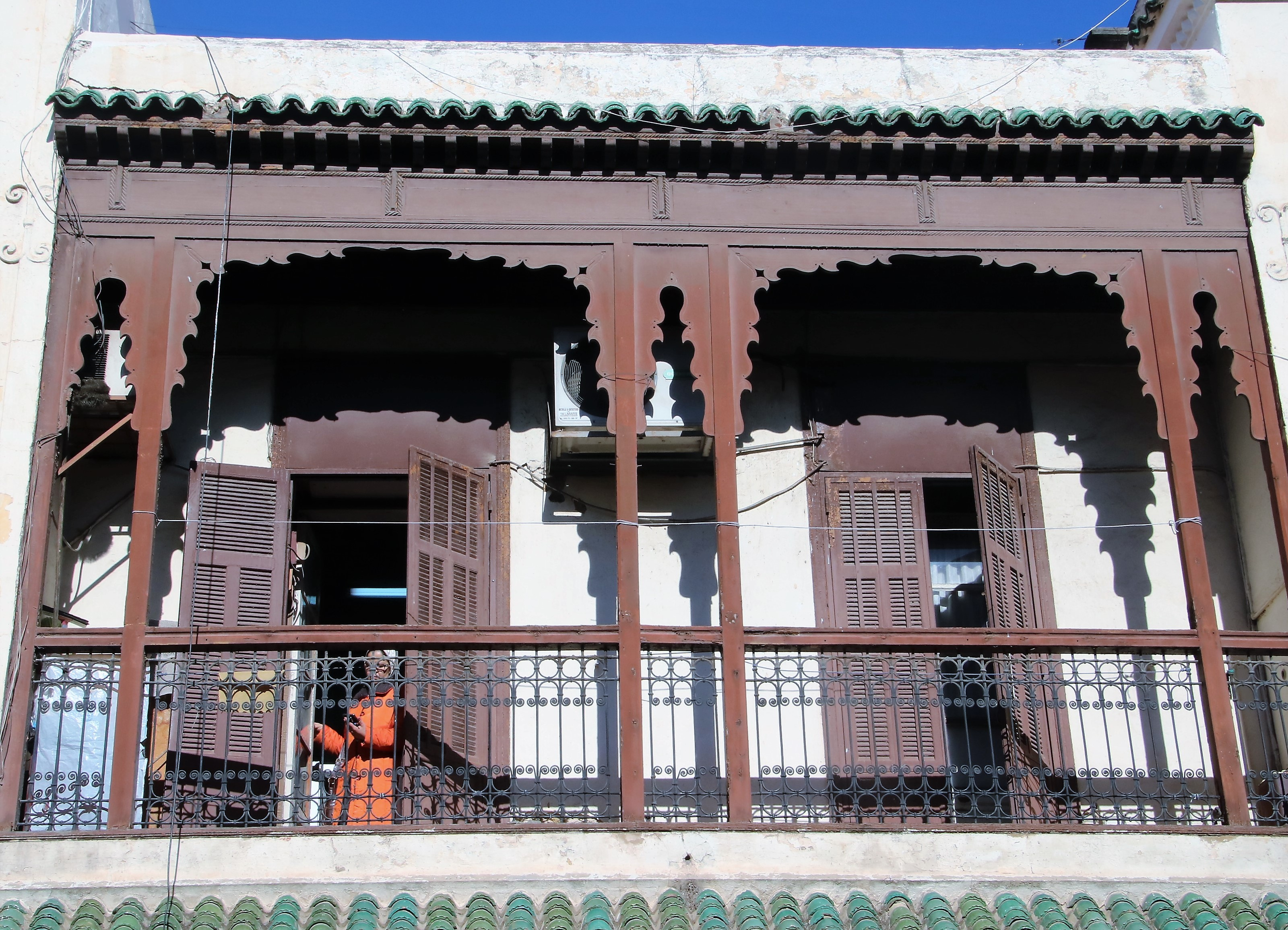 Visit in Fes December,27th 2019 to January 1st,2020